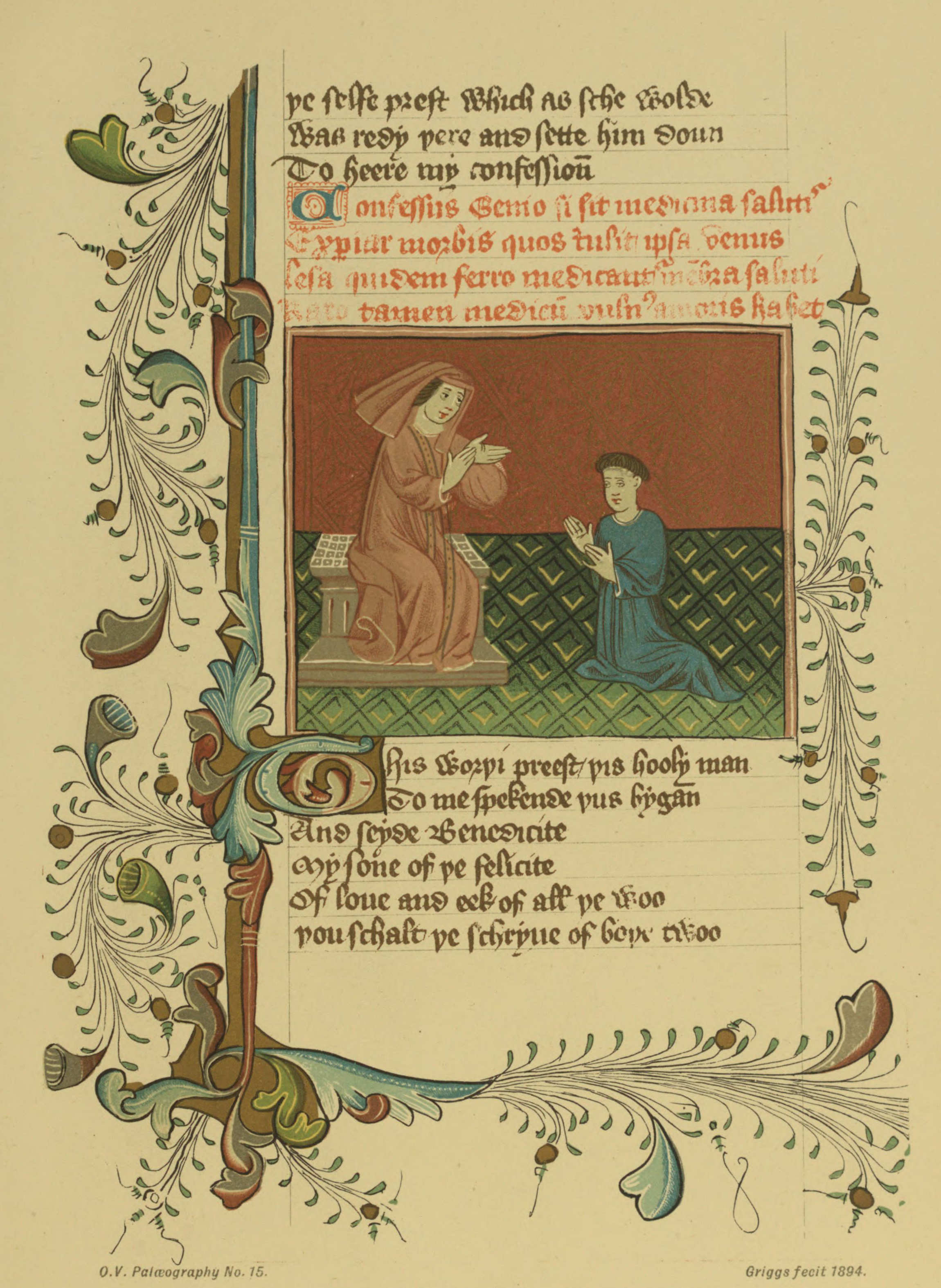 Plate from Palæography: Notes upon the History of Writing and the Medieval Art of Illumination. JOHN GOWER AND THE PRIEST OF VENUS.From a MS. of Gower's Confessio Amantis, written before 1399.